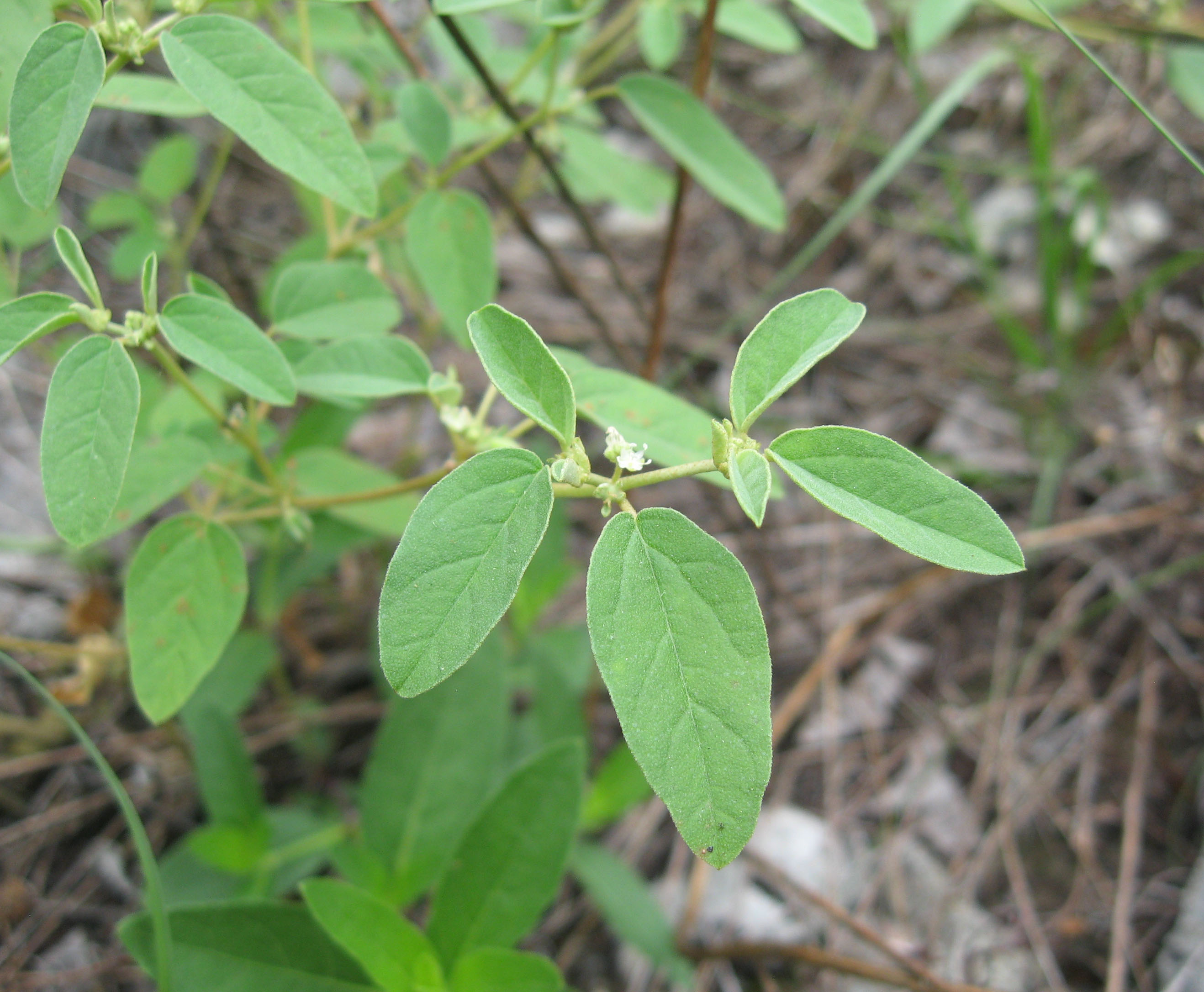 Croton monanthogynus found in Logan County Glade State Nature Preserve, Logan County, Kentucky.